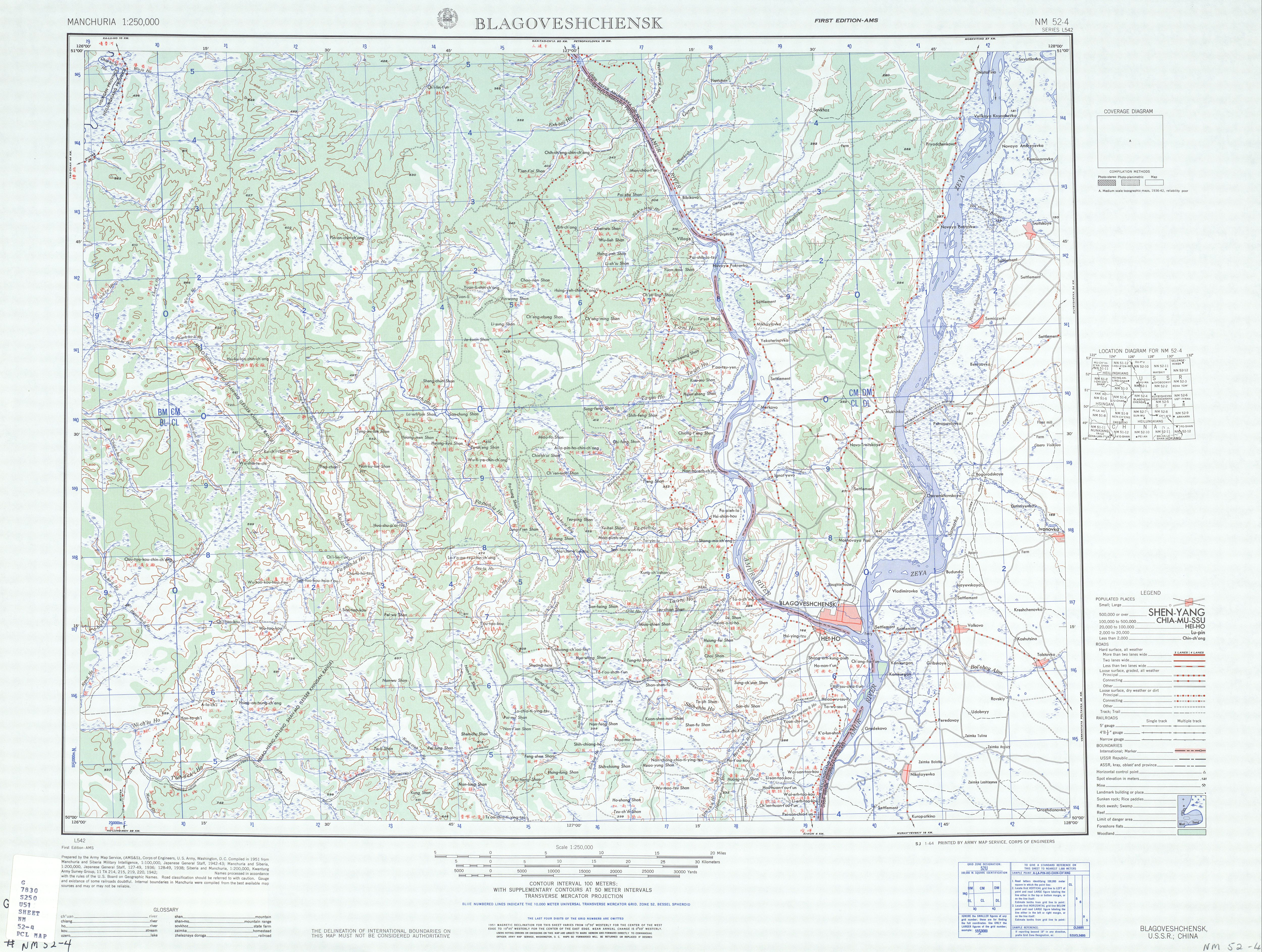 Map of Blagoveshchensk area, USSR (present-day Russia)